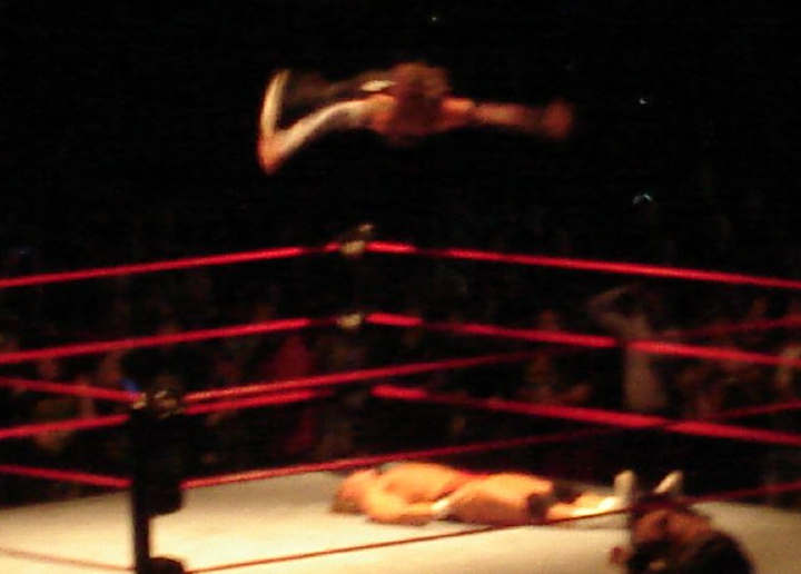 Jeff Hardy hits a Swanton Bomb during a WWE house show held in Hamilton, Ontario, Canada.